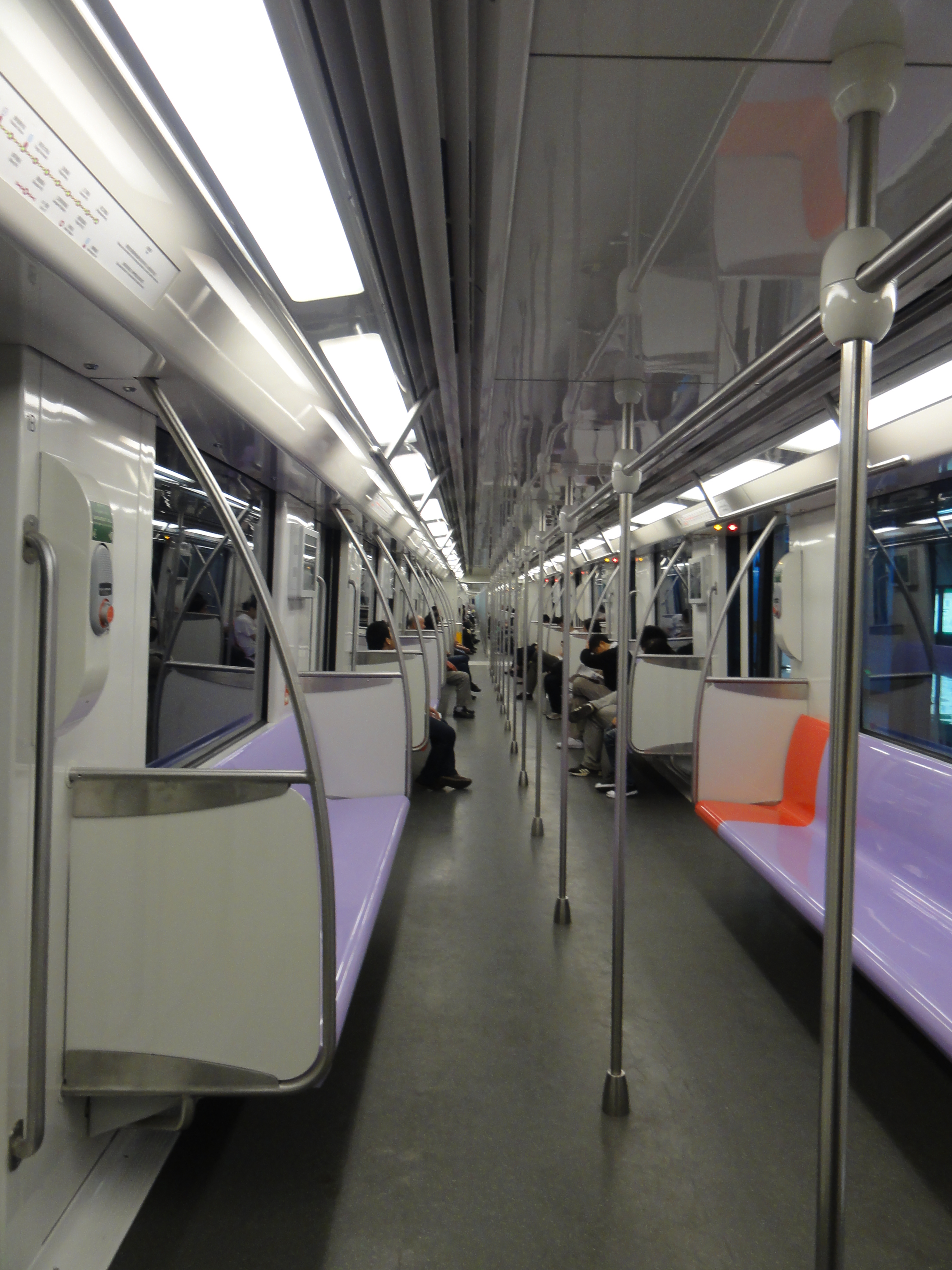 Cabin of Shanghai Metro Line 10 中文（中国大陆）: 上海轨道交通10号线车厢内部